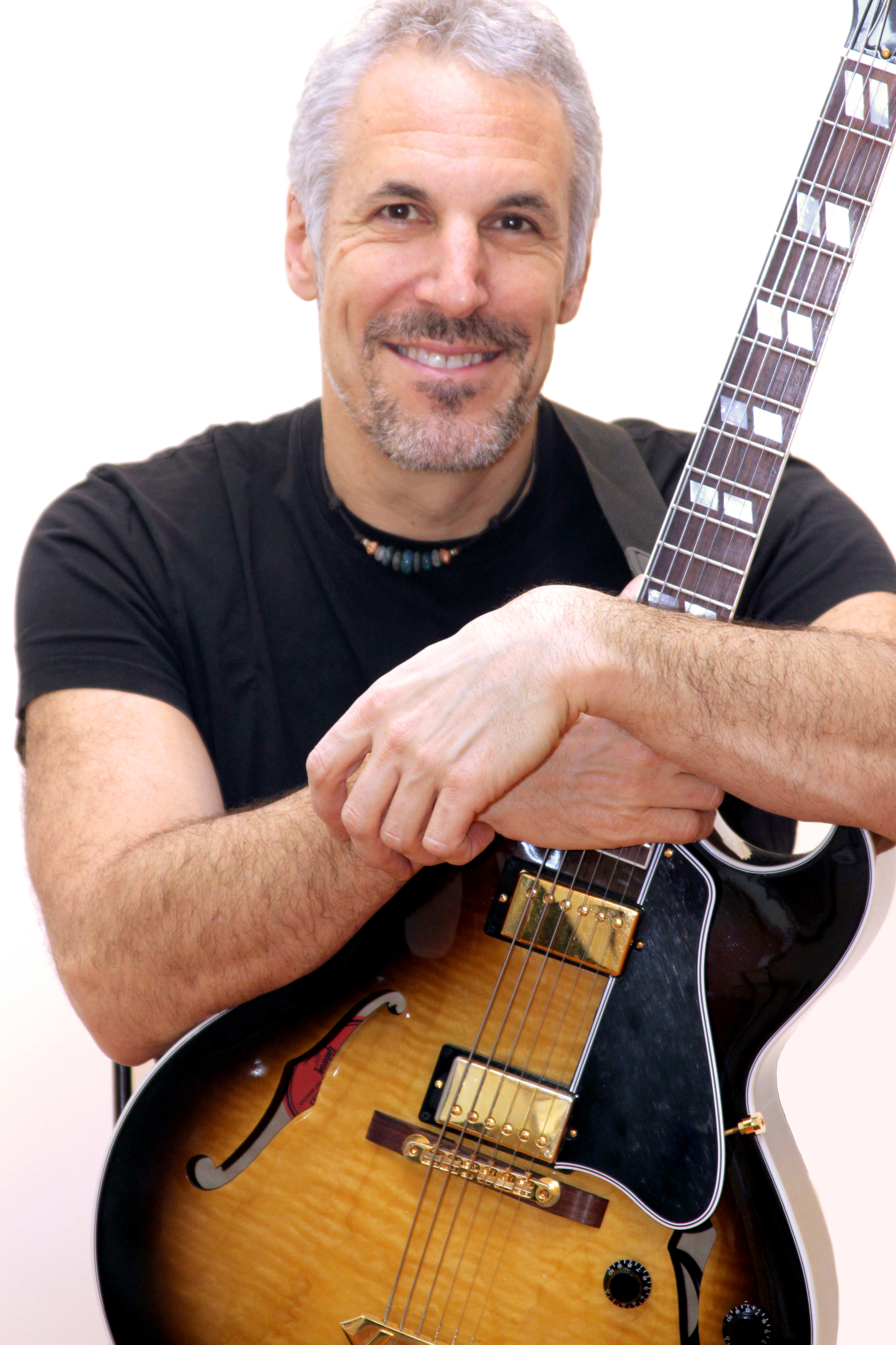 Guitarist Jeff Pevar